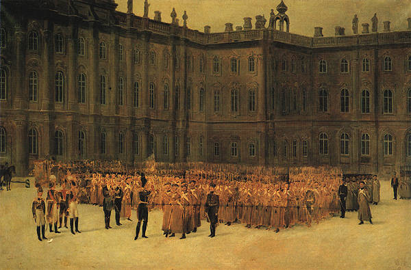 Tsar Nicholas I of Russia in front of Guard Sapyor batallion. December 14. 1825